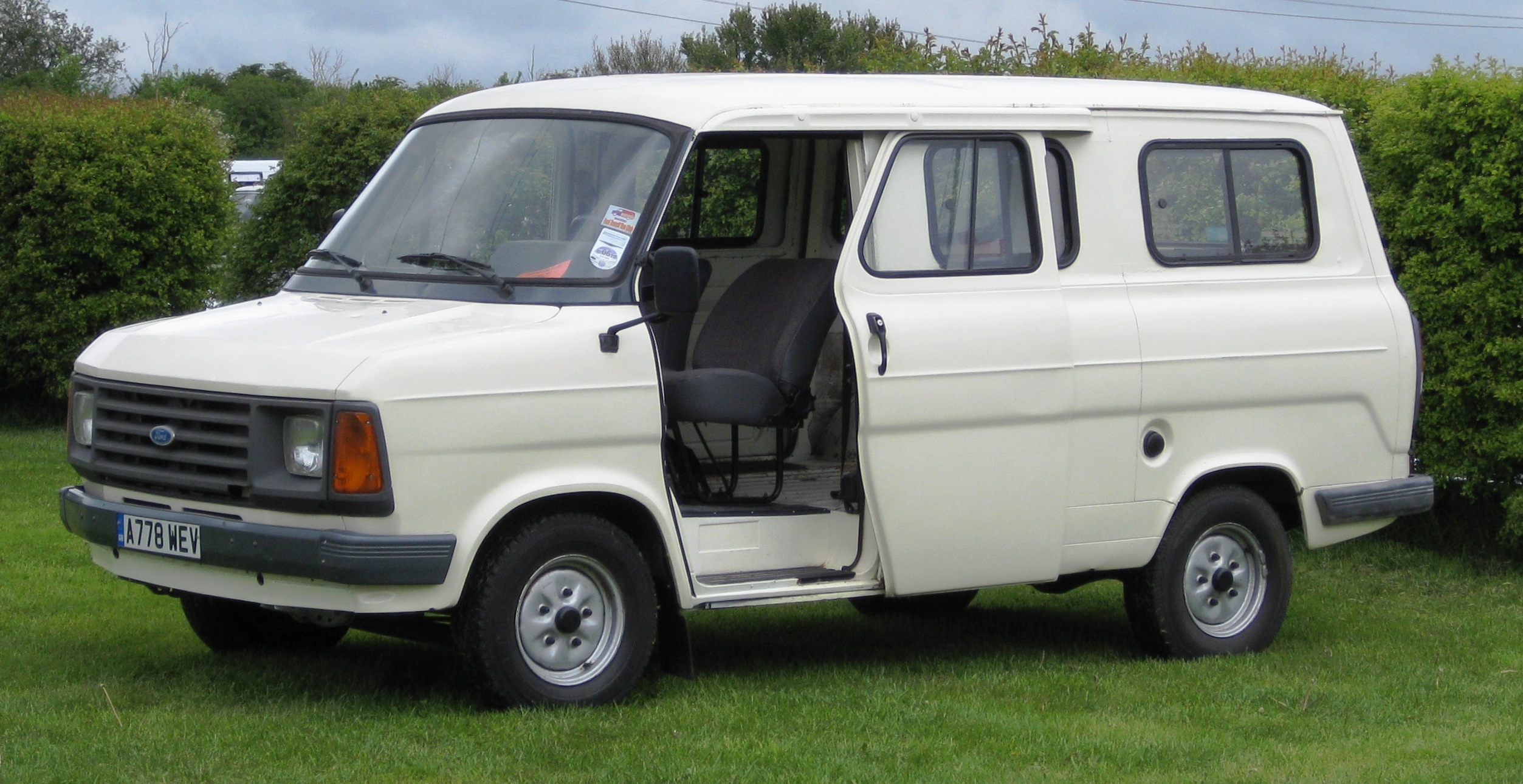 Ford Transit minibus at Classic Car Show at Battlesbridge, Essex